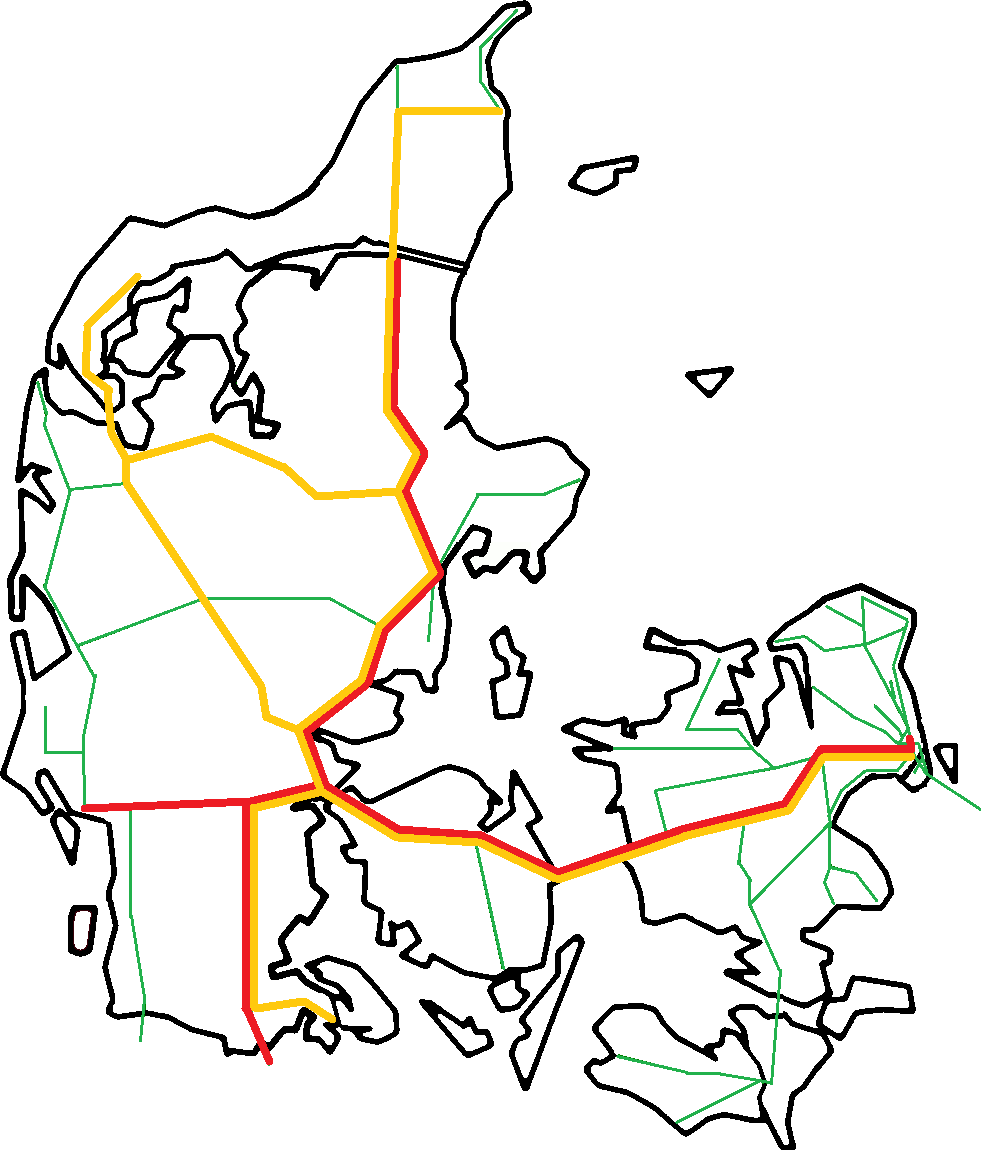 Map of railways in Denmark with lines served by InterCity in red and InterCityLyn in yellow as of 4 January 2016.